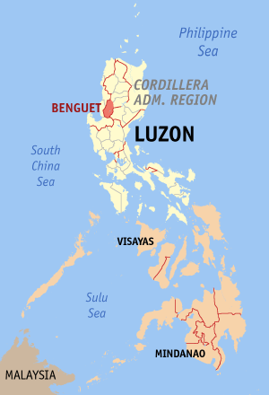 Map of the Philippines showing the location of Benguet